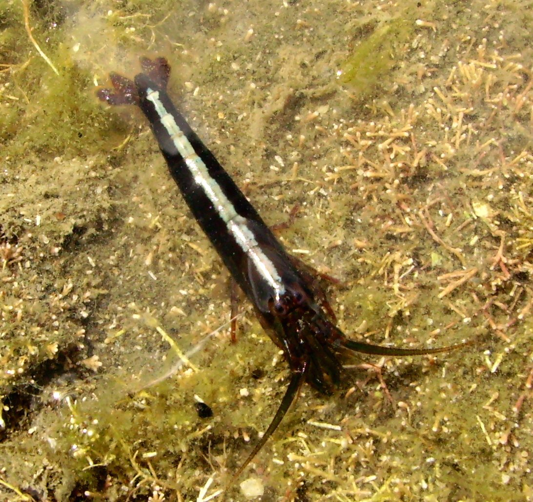 Betaeopsis aequimanus, from Whangaparaoa, New Zealand. This work has been released into the public domain by its author, Graham Bould. This applies worldwide.In some countries this may not be legally possible; if so:Graham Bould grants anyone the right to use this work for any purpose, without any conditions, unless such conditions are required by law. .